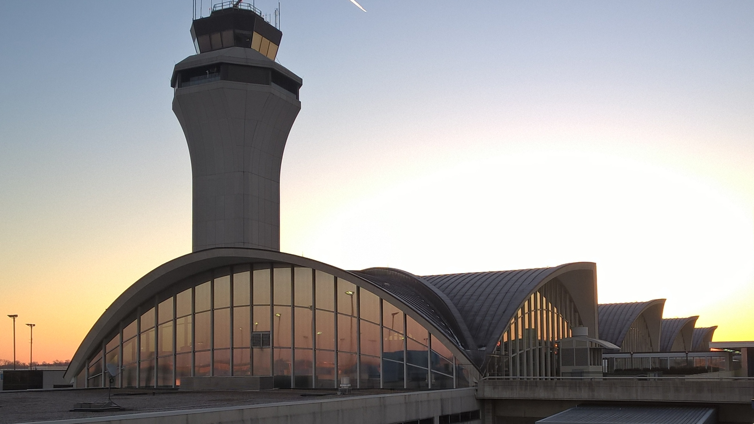 Western Perspective of St. Louis Lambert International Airport T1